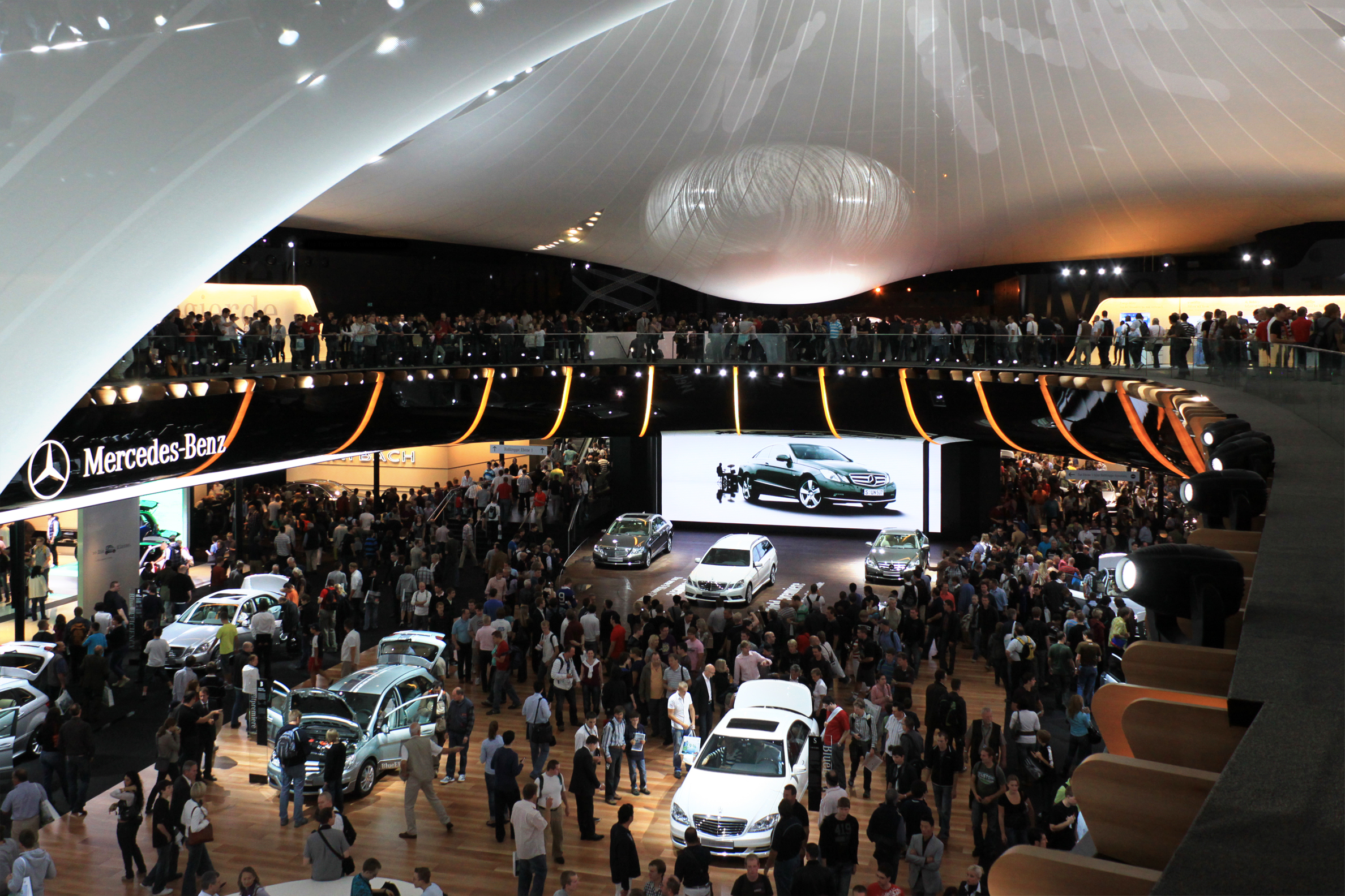 Mercedes-Benz at Frankfurt Motor Show 2009 in Frankfurt, Germany